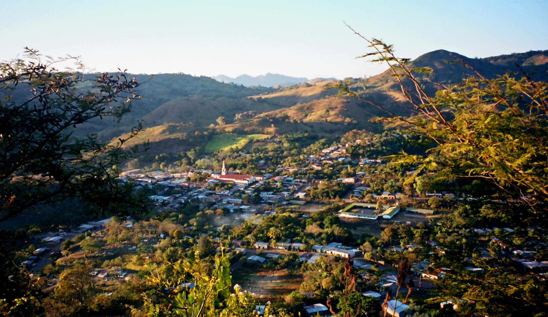 Yali, surrounded by hills.